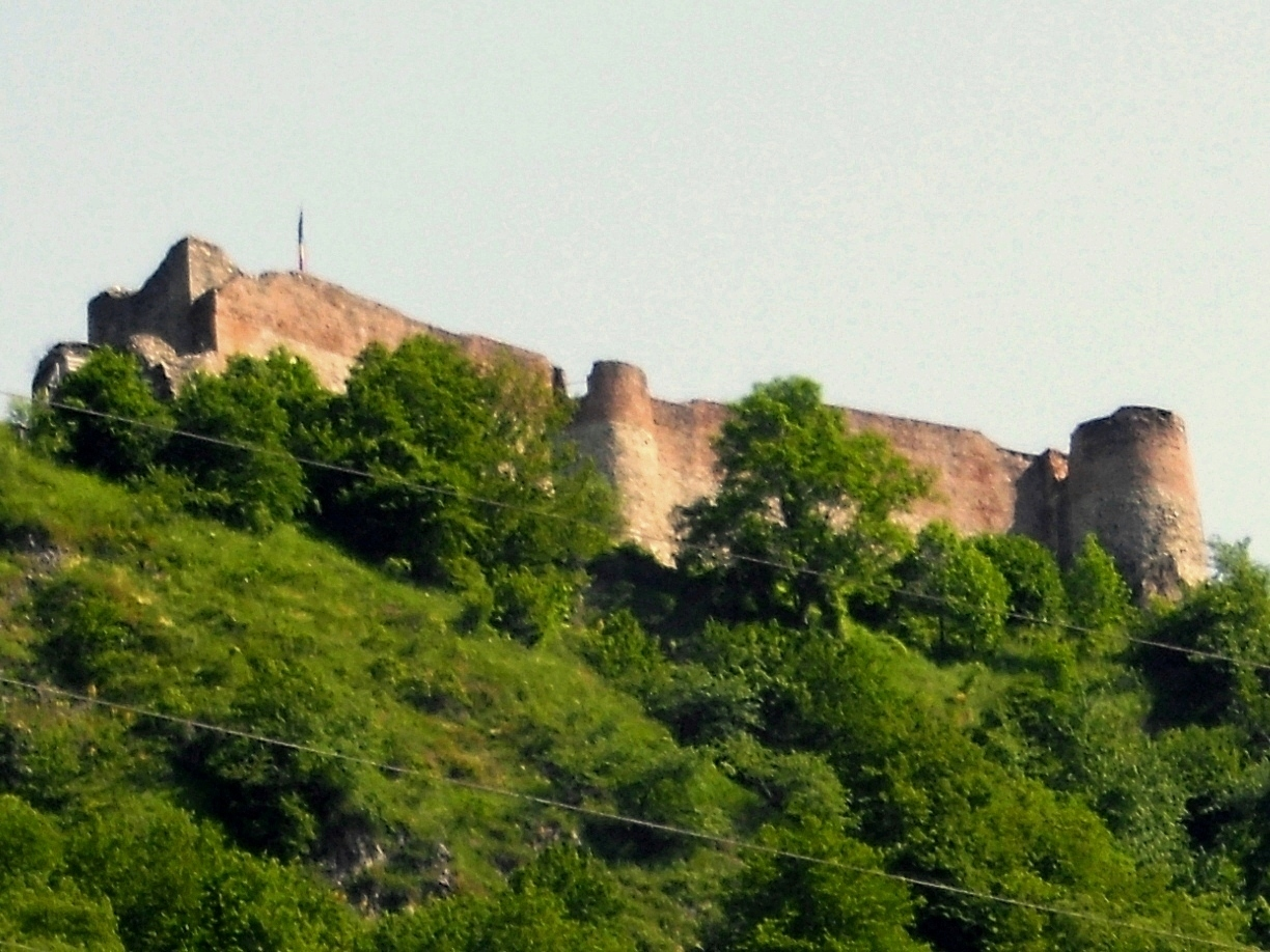 Castle of Vlad Tepes Dracula in Poienari (Transylvania in Romania).